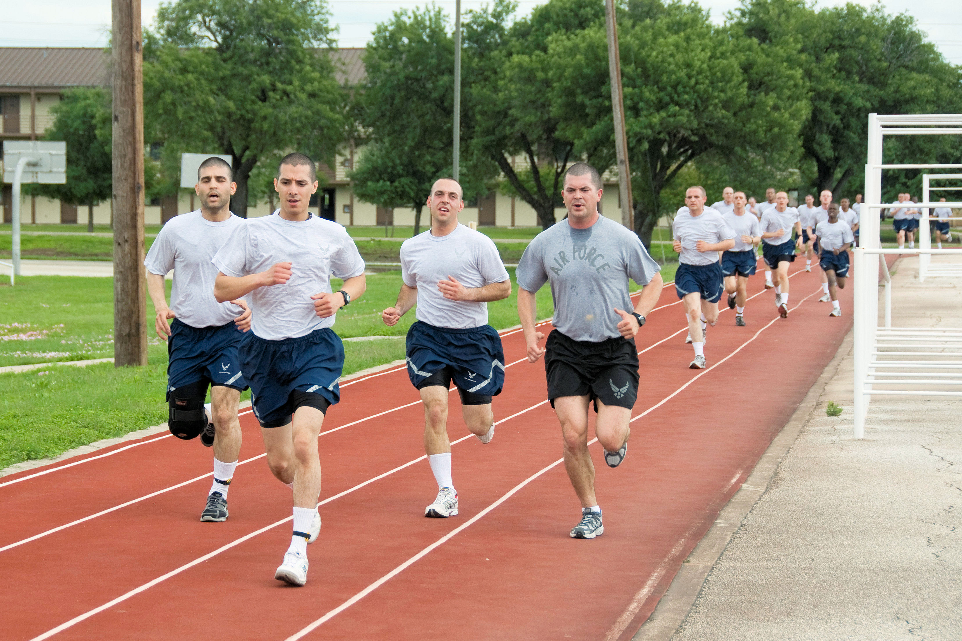 37th Training Wing - BMTS - Motivation by the Military Training Instructor assists these seventh week flights to exceed their run times for the final physical training assessment. (U.S. Air Force Photo/Melinda Mueller)